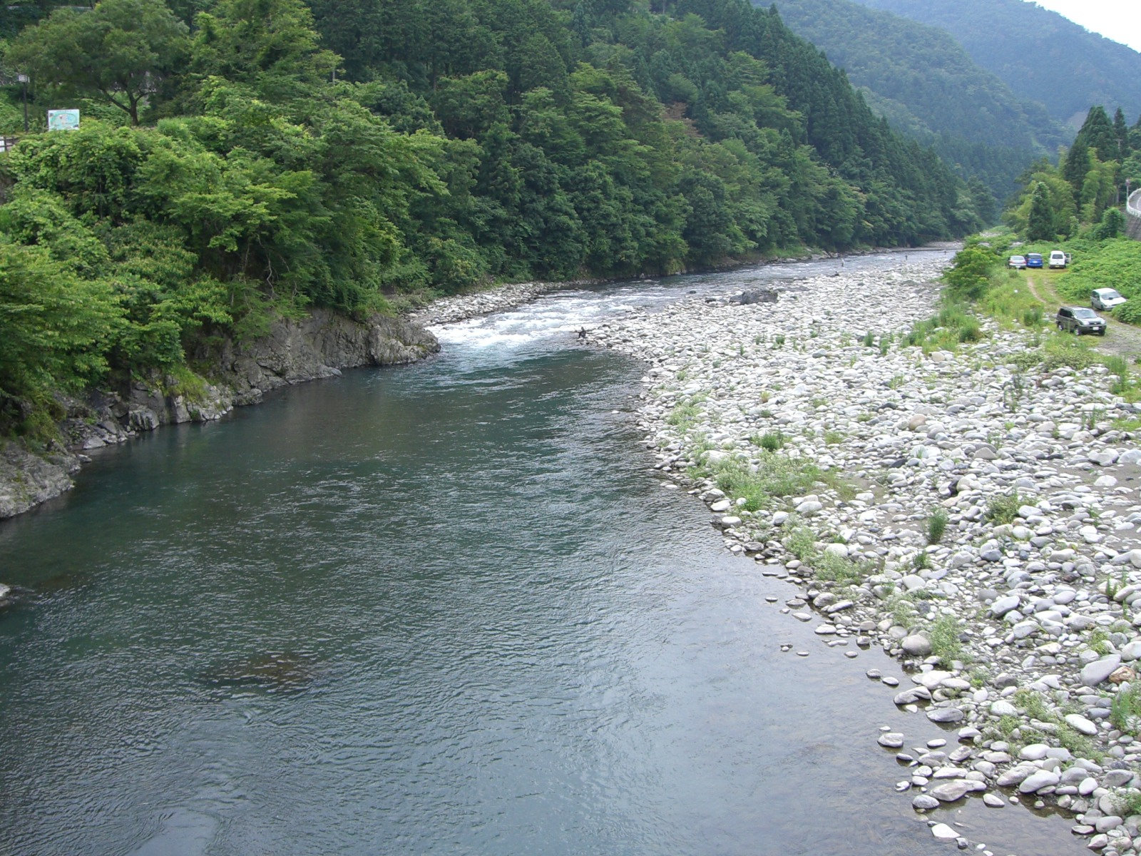 Neo Nishitani River,Gifu,Japan